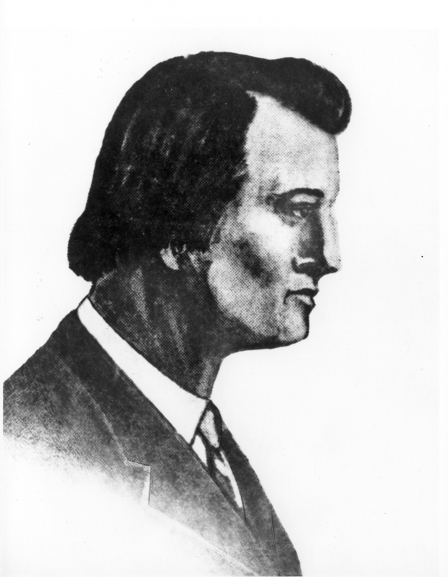 Depicted person: Joseph Alfred Slade – American gunman